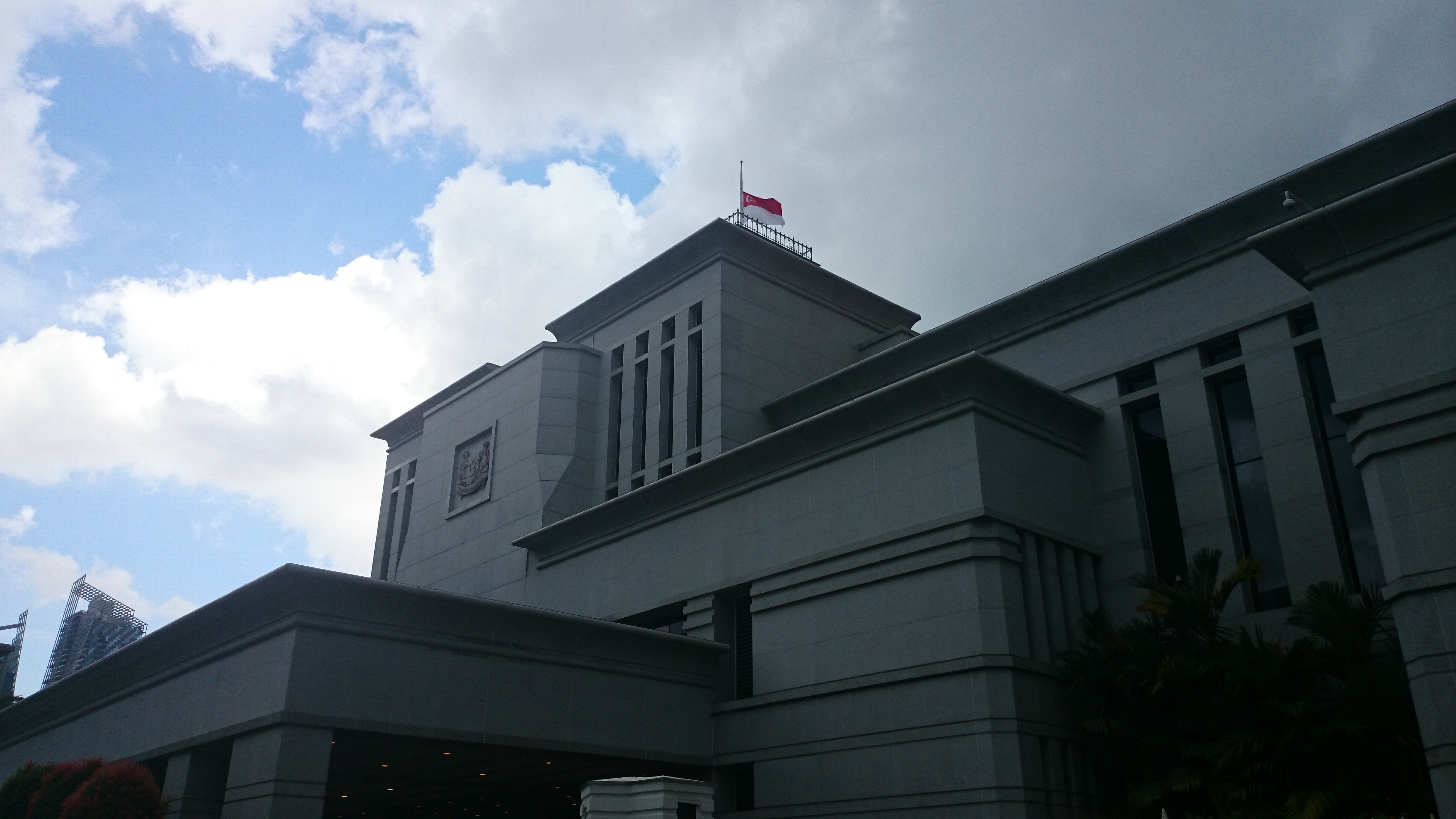 The National Flag of Singapore flying at half-mast on Parliament House as the body of the former Prime Minister of Singapore Lee Kuan Yew lay in state there from 25 to 28 March 2015.